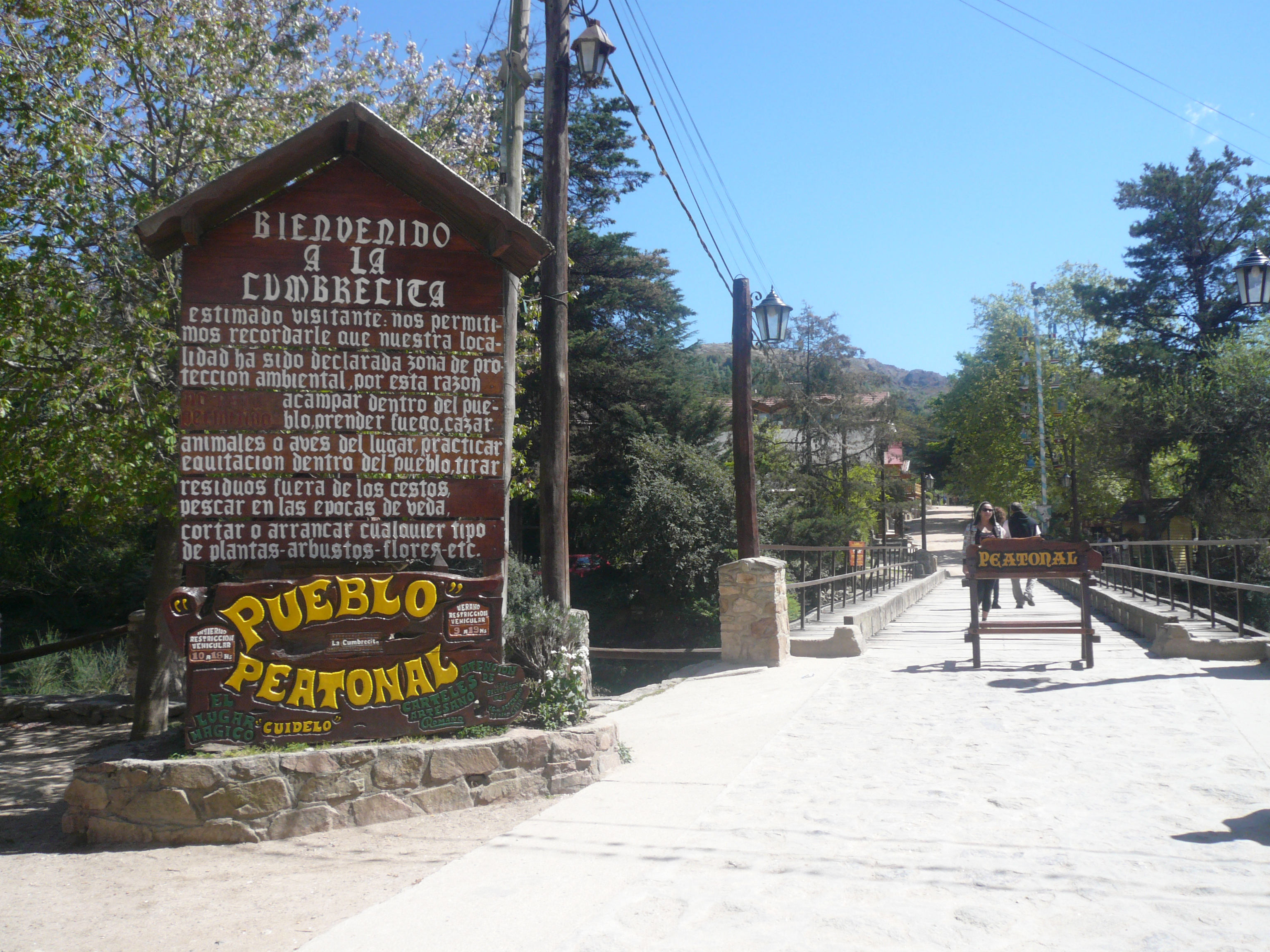 La Cumbrecita